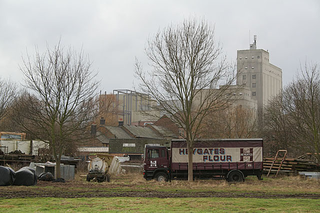 Bugbrooke Mill from the east